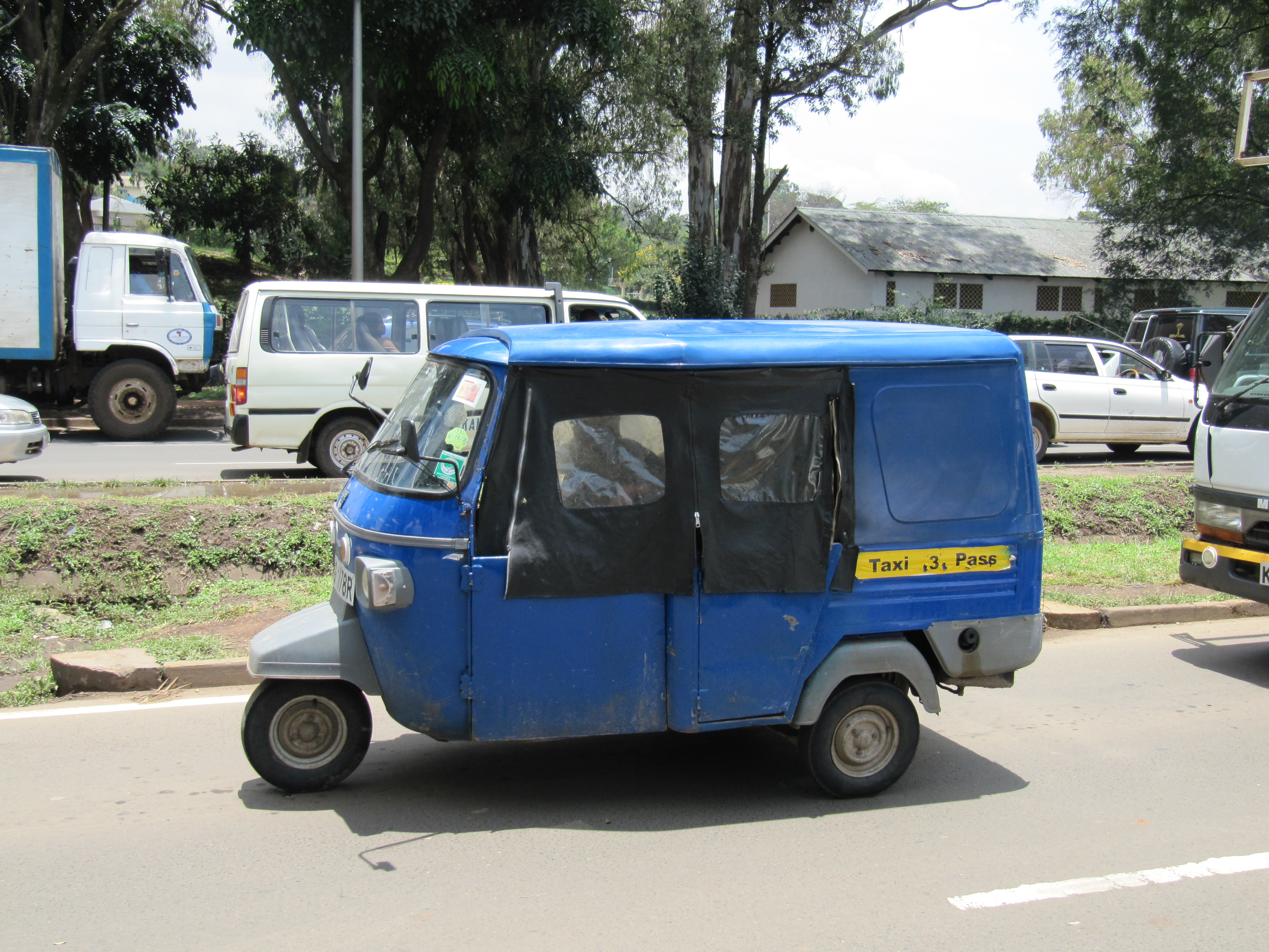 Tuk-tuk on the street of Nairobi, Kenya